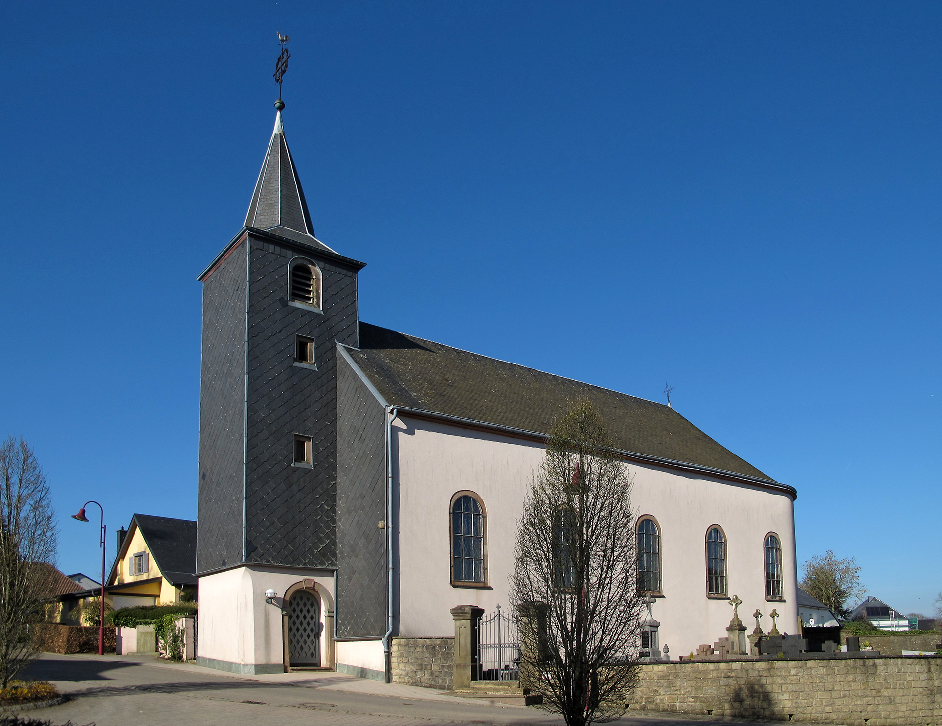 Church in Roodt (Ell), Luxembourg